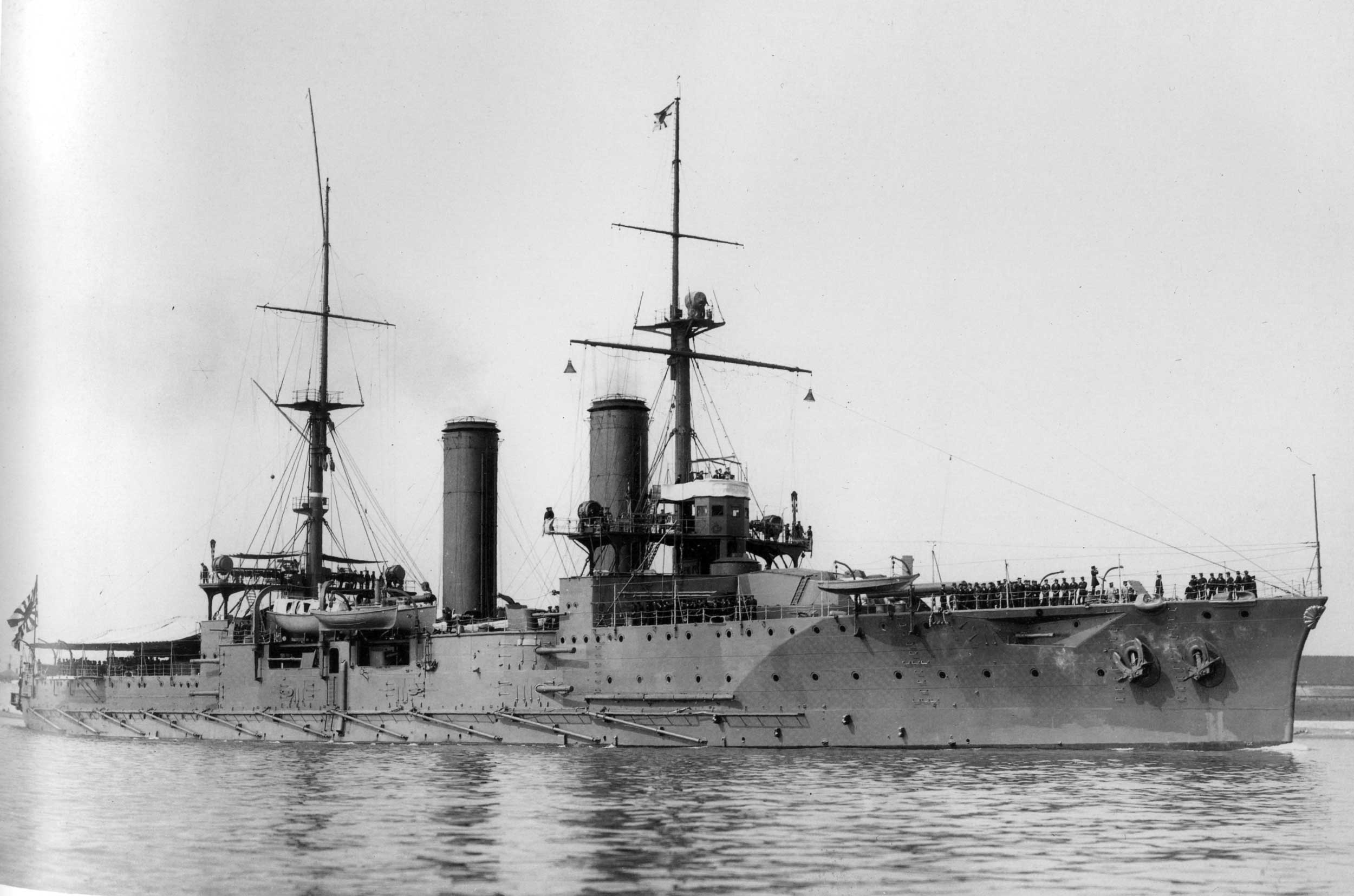 Photo of Japanese cruiser Tsukuba moving at slow speed, before 1913